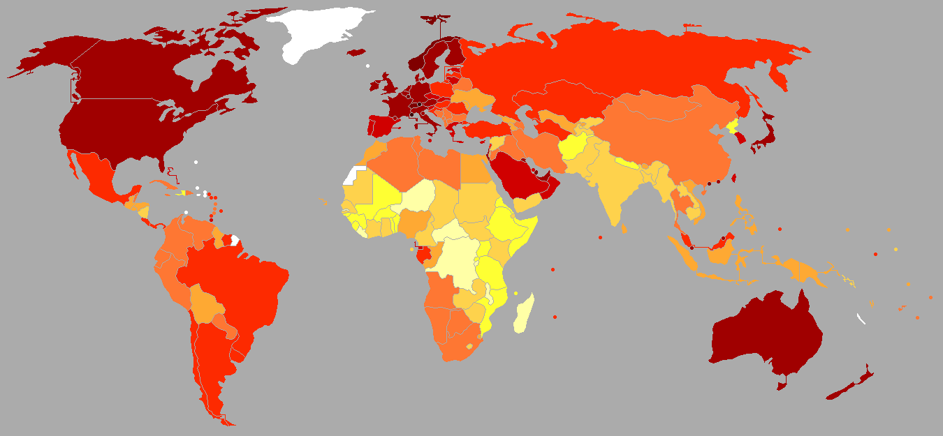 GDP per capita 2014 over $129,696 $64,848–129,696 $32,424–64,848 $16,212–32,424 $8,106–16,212 $4,053–8,106 $2,027–4,053 $1,013–2,027 $507–1,013 below $507 unavailable